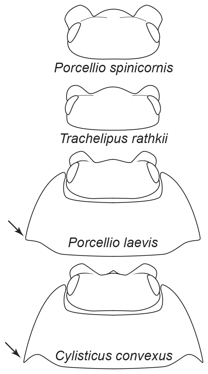 Porcellionidae, Trachelipodidae, Cylisticidae.Porcellio spinicornis, head, dorsal viewTrachelipus rathkii, head, dorsal viewPorcellio laevis, head and first pereonal tergite, dorsal viewCylisticus convexus, head and first pereonal tergite, dorsal view.